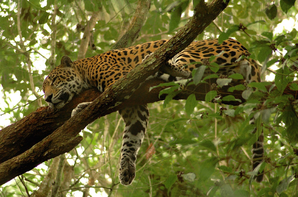 A jaguar at Belize Zoo, Belize.